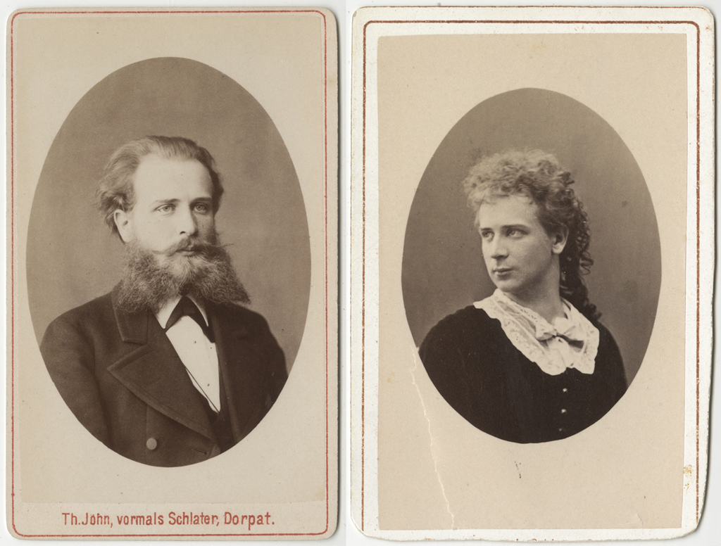 1848-1922, õppis 1867-1874 meditsiini ja botaanikat, õpetaja, Tartu botaanikaaia direktori abi, hiljem töötas Peterburi botaanikaaias - - - 1848-1922, studied medicine and botany from 1867-1874, teacher, aid to the director of the Botanical Garden of Tartu, later worked at the St. Petersburg Botanical Gardens Viitekoodid / Reference codes: EAA.1423.1.195.13 EAA.1843.1.223.177 Kirjed andmebaasis FOTIS / Descriptions in the database FOTIS